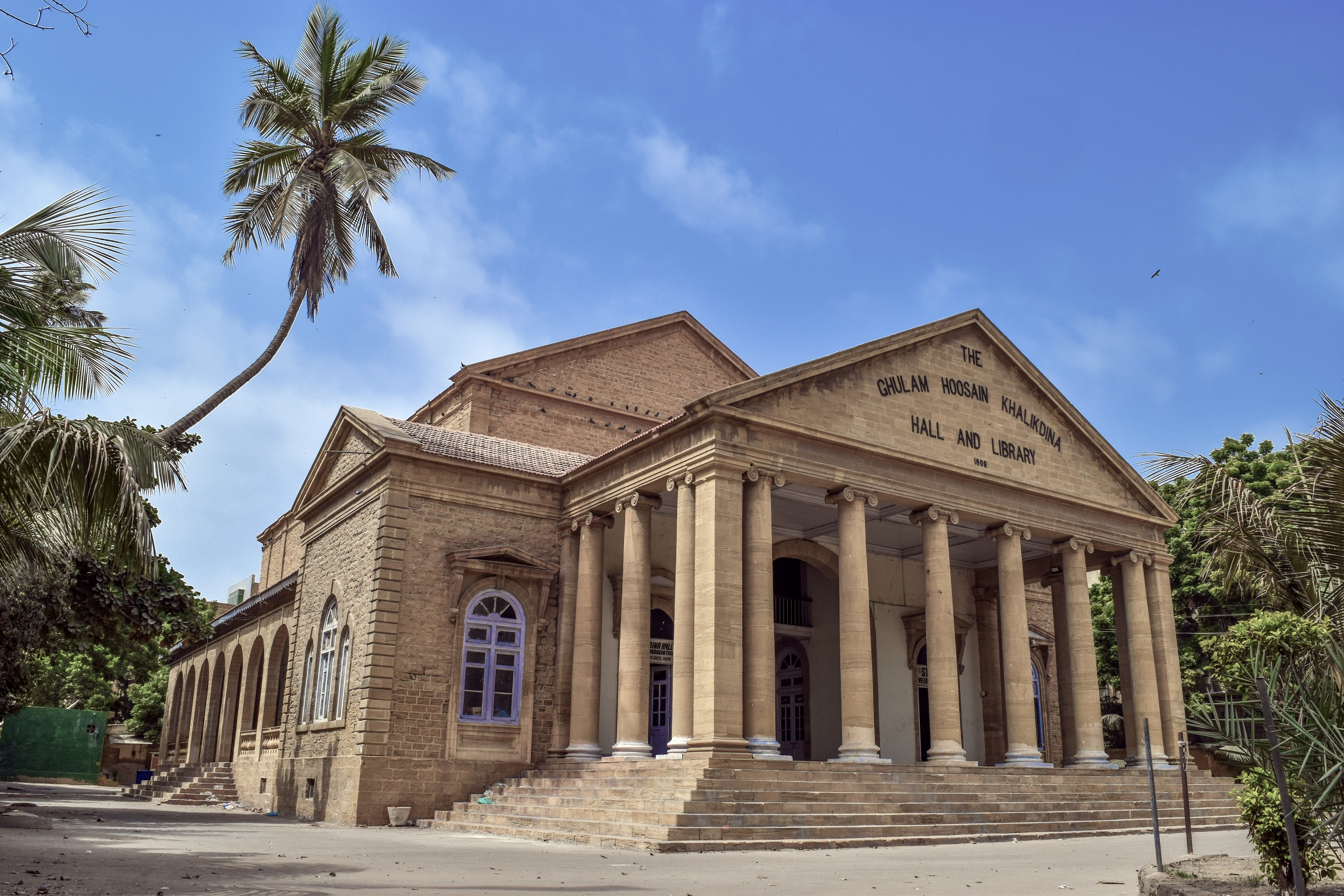 Khaliq Deena Hall This is a photo of a monument in Pakistan identified as the SD-33